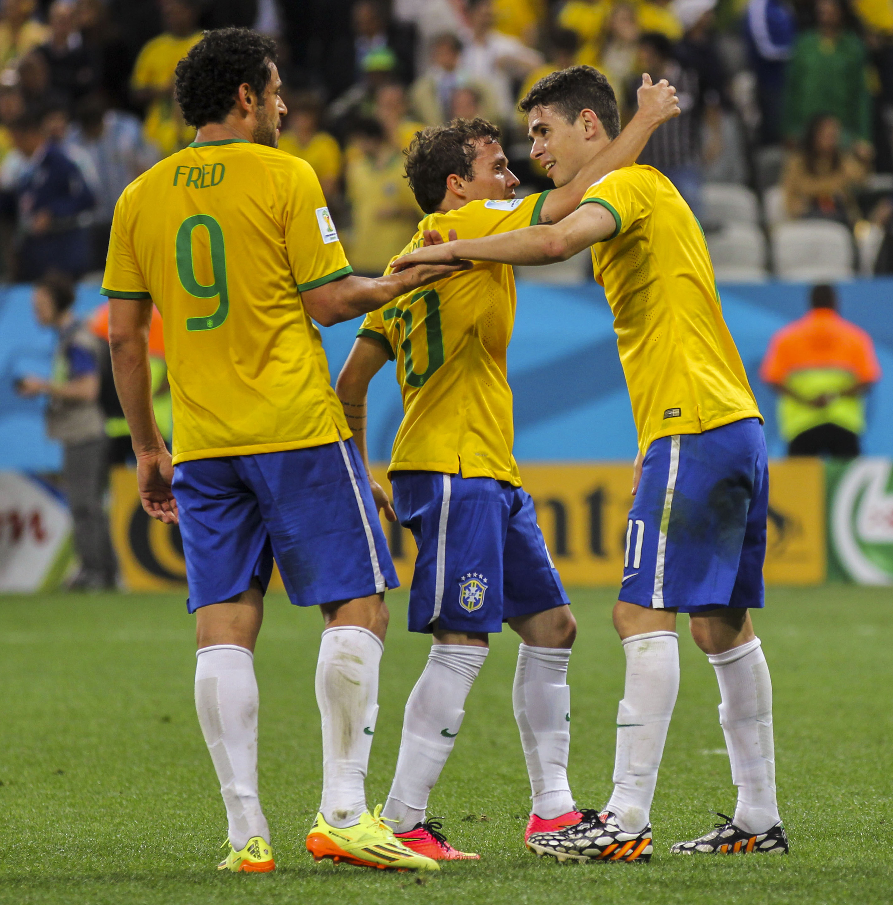 Brazil and Croatia match at the FIFA World Cup 2014-06-12